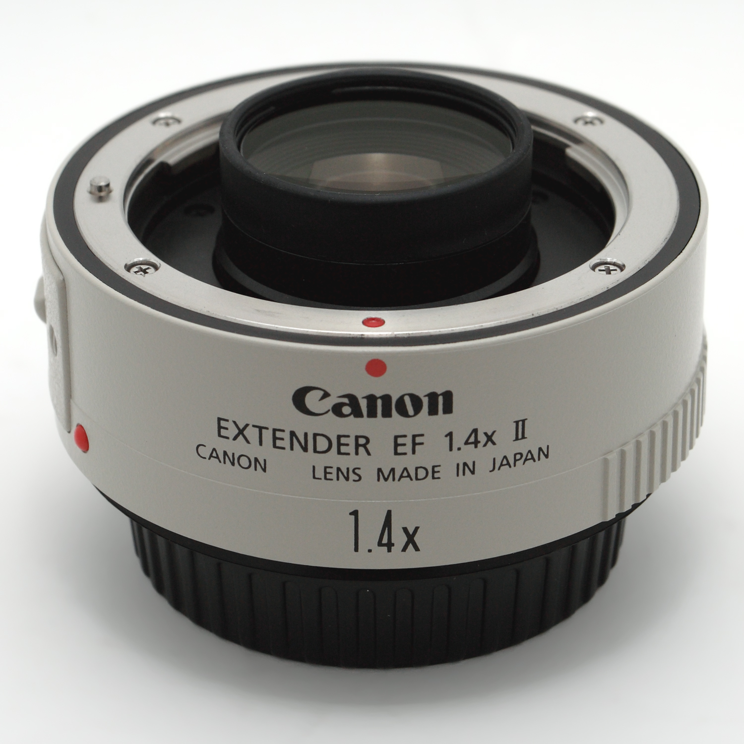 Side shot of the Canon Extender EF 1.4x II.